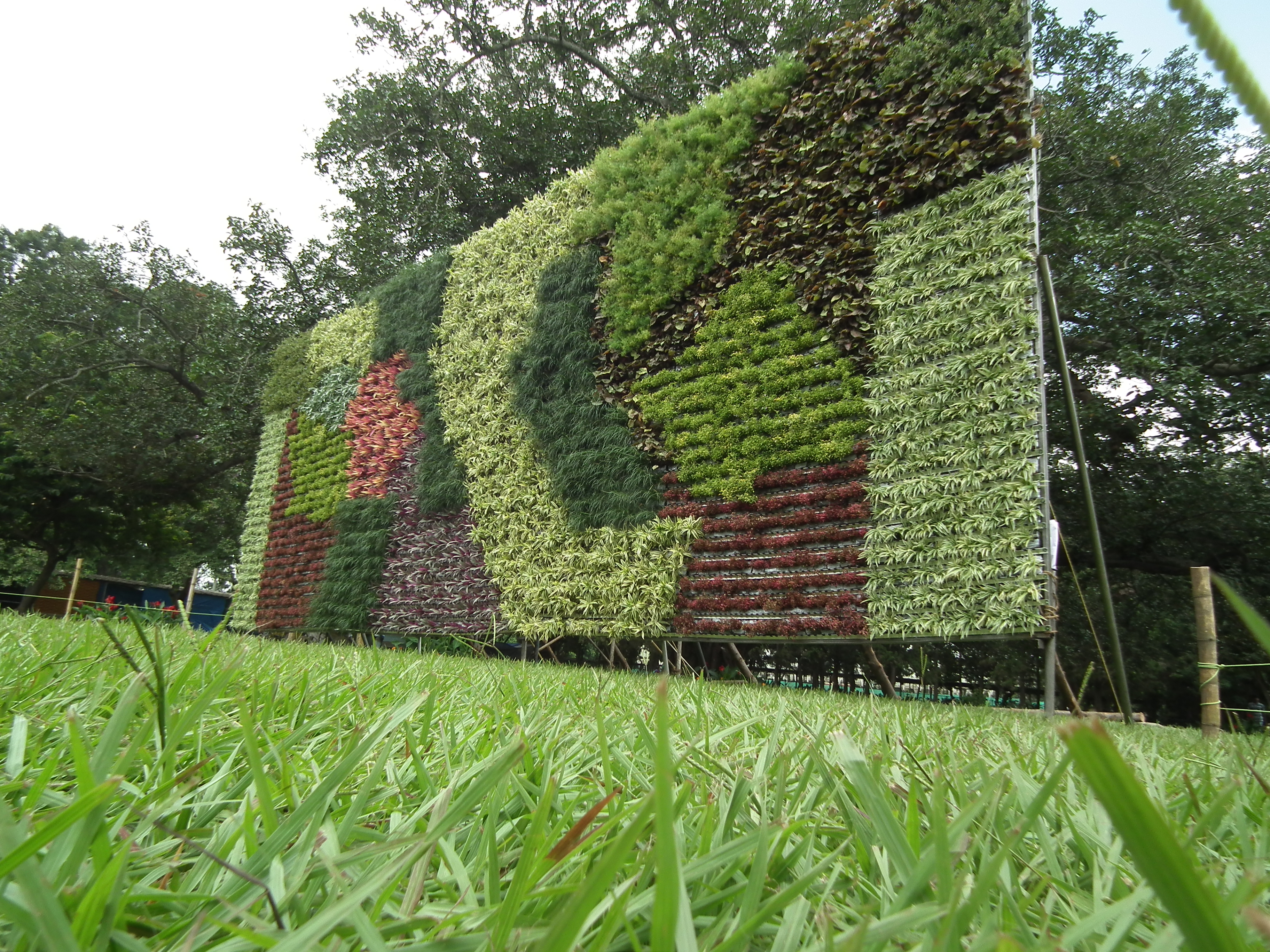 Vertical Garden during Lalbagh Flower show